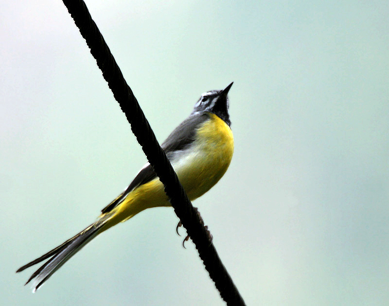 Grey Wagtail Motacilla cinerea in Kullu District of Himachal Pradesh, India on way to Guna Pani during Sar Pass Trek. Very much liked by the trekkers on the trek due to its beautiful yellow colours. Summers & breeds in Himalayas, generally seen singly along rocky streamlets & trickles, feeding on insects, sometimes capturing midges in the air.